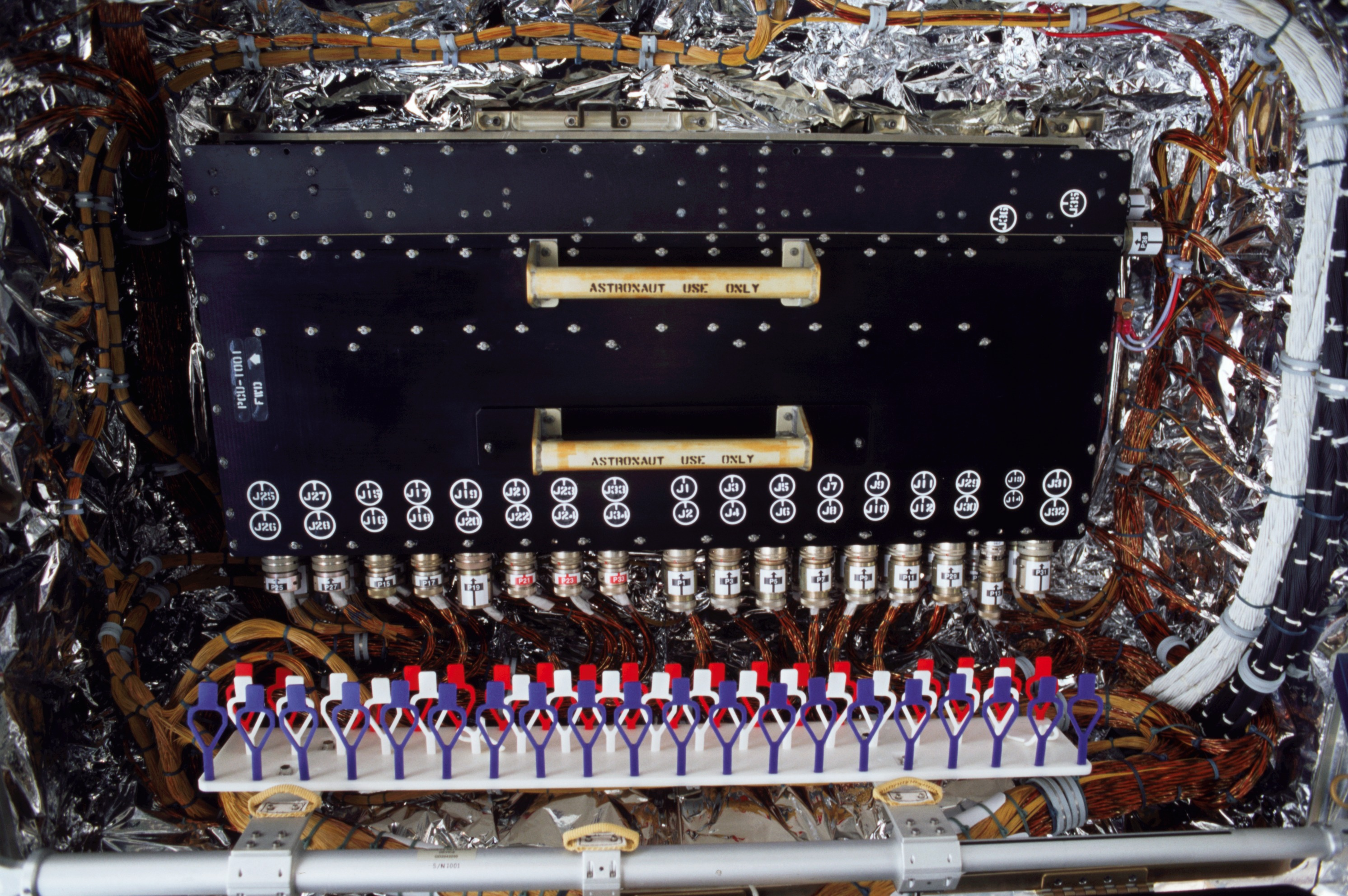 A close-up view of the power control unit or PCU, which is the heart of the Hubble Space Telescope (HST) power system. Astronauts John M. Grunsfeld and Richard M. Linnehan, STS-109 payload commander and mission specialist, respectively, replaced the PCU on March 6, 2002, during the third space walk of the mission. This image or video was catalogued by one of the centers of the United States National Aeronautics and Space Administration (NASA) under Photo ID: STS109-322-025. This tag does not indicate the copyright status of the attached work. A normal copyright tag is still required. See Commons:Licensing for more information.